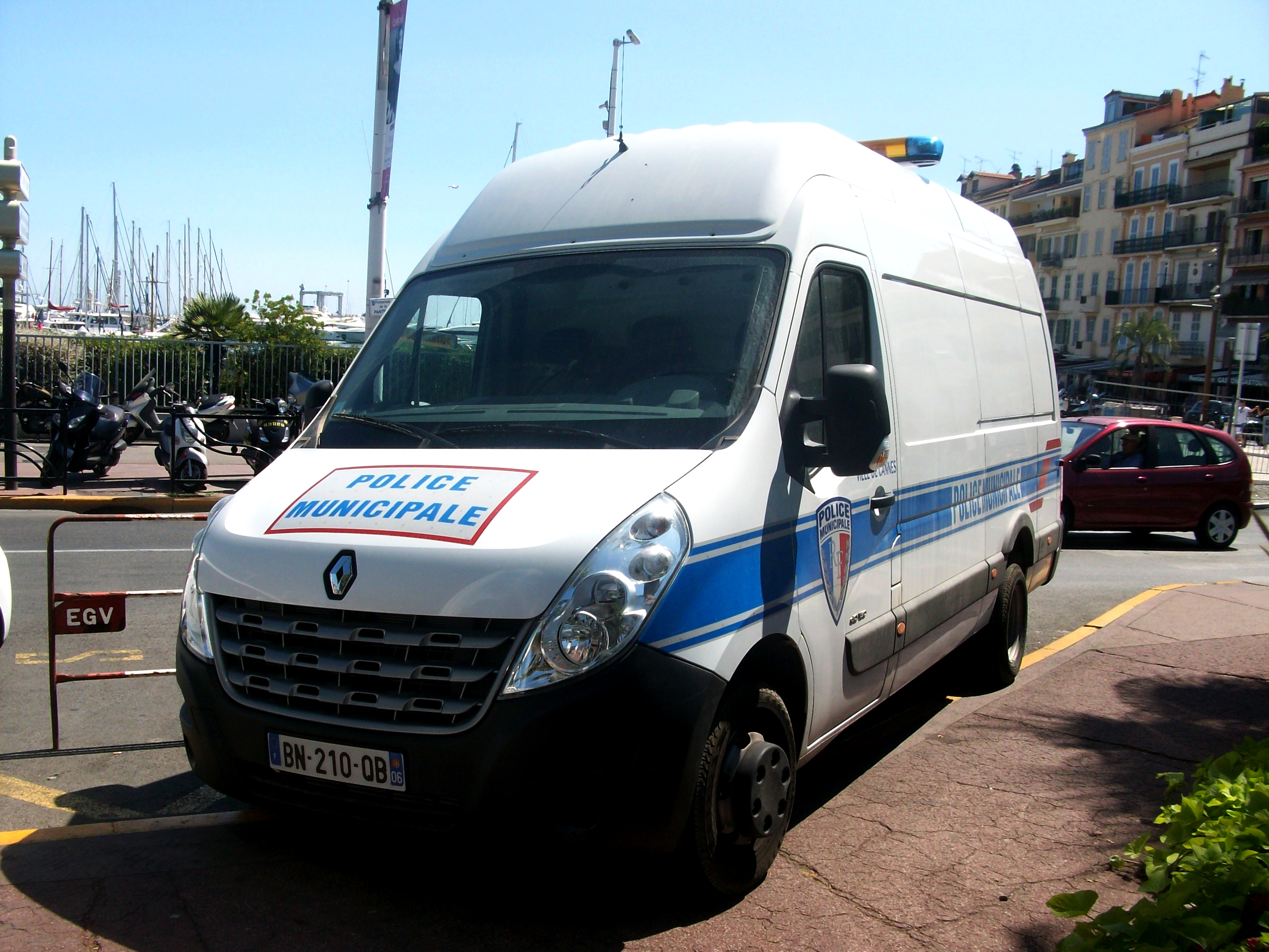 Municipal police, Cannes